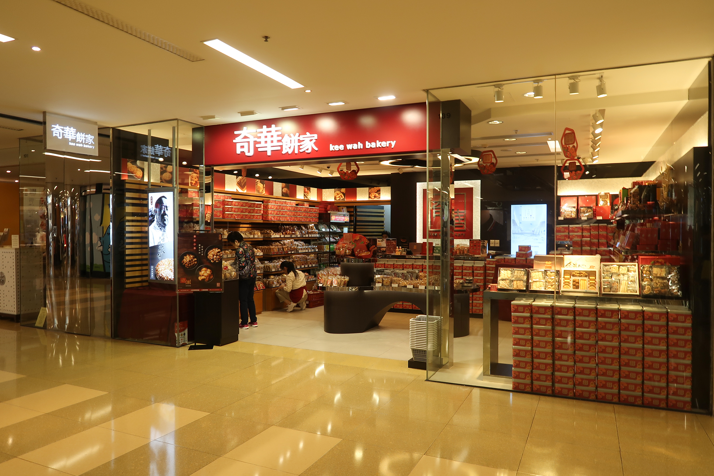 Kee Wah Bakery in cityplaza